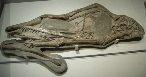 Cearadactylus